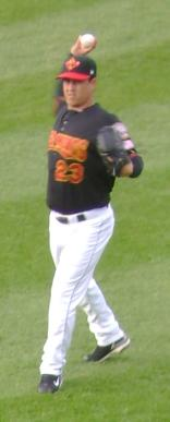 Danny Graves warms up before his first career start as a Rochester Red Wing 5/12/08 05:59, 13 May 2008 . . Phil5329 . . 156×387 (9 KB)